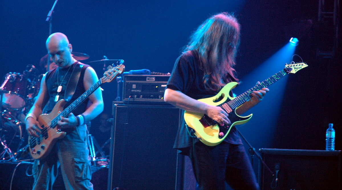 Turbo band at Metalmania Festival 2005 in Poland